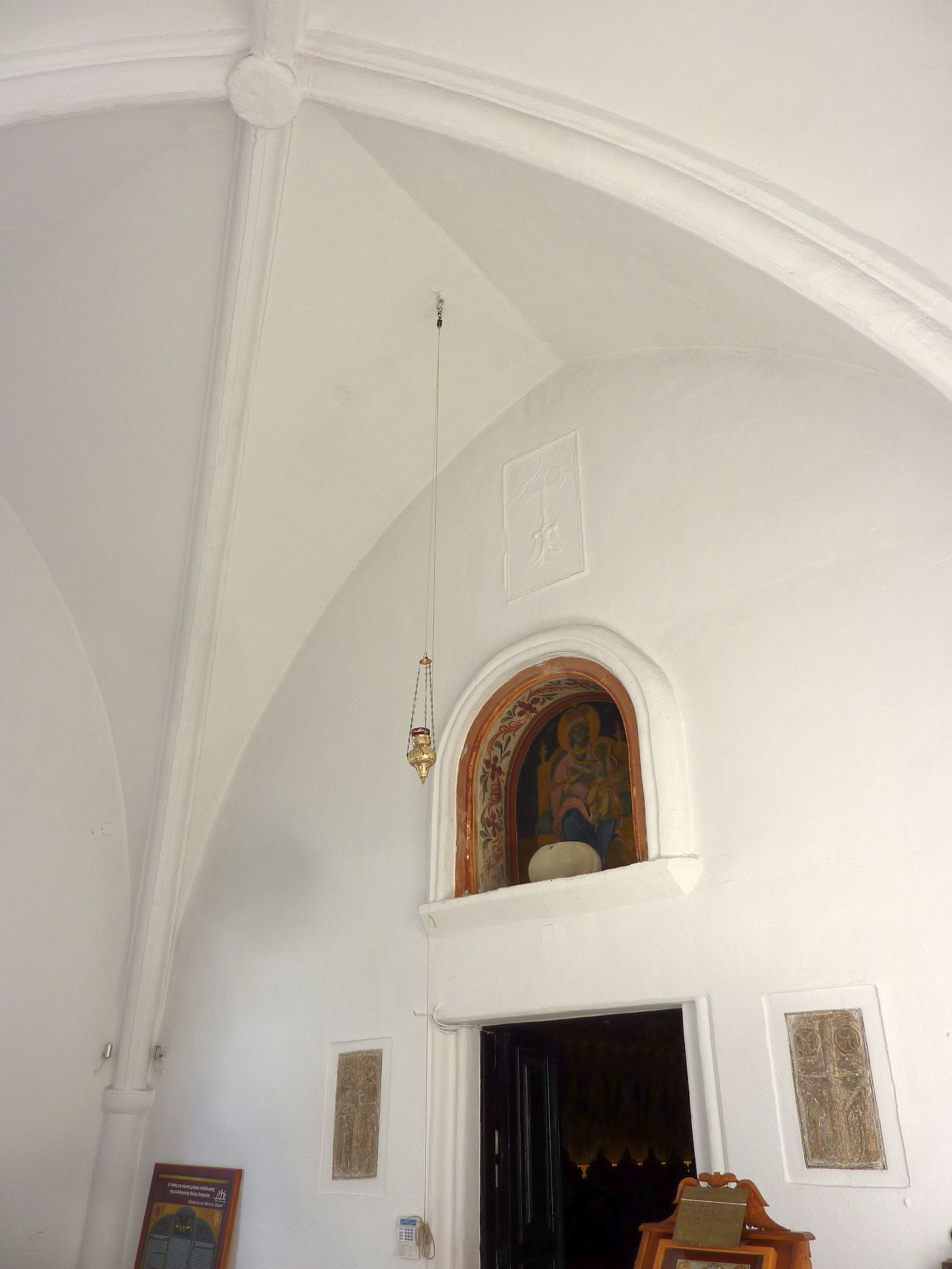 Church of Panagia (Lindos)